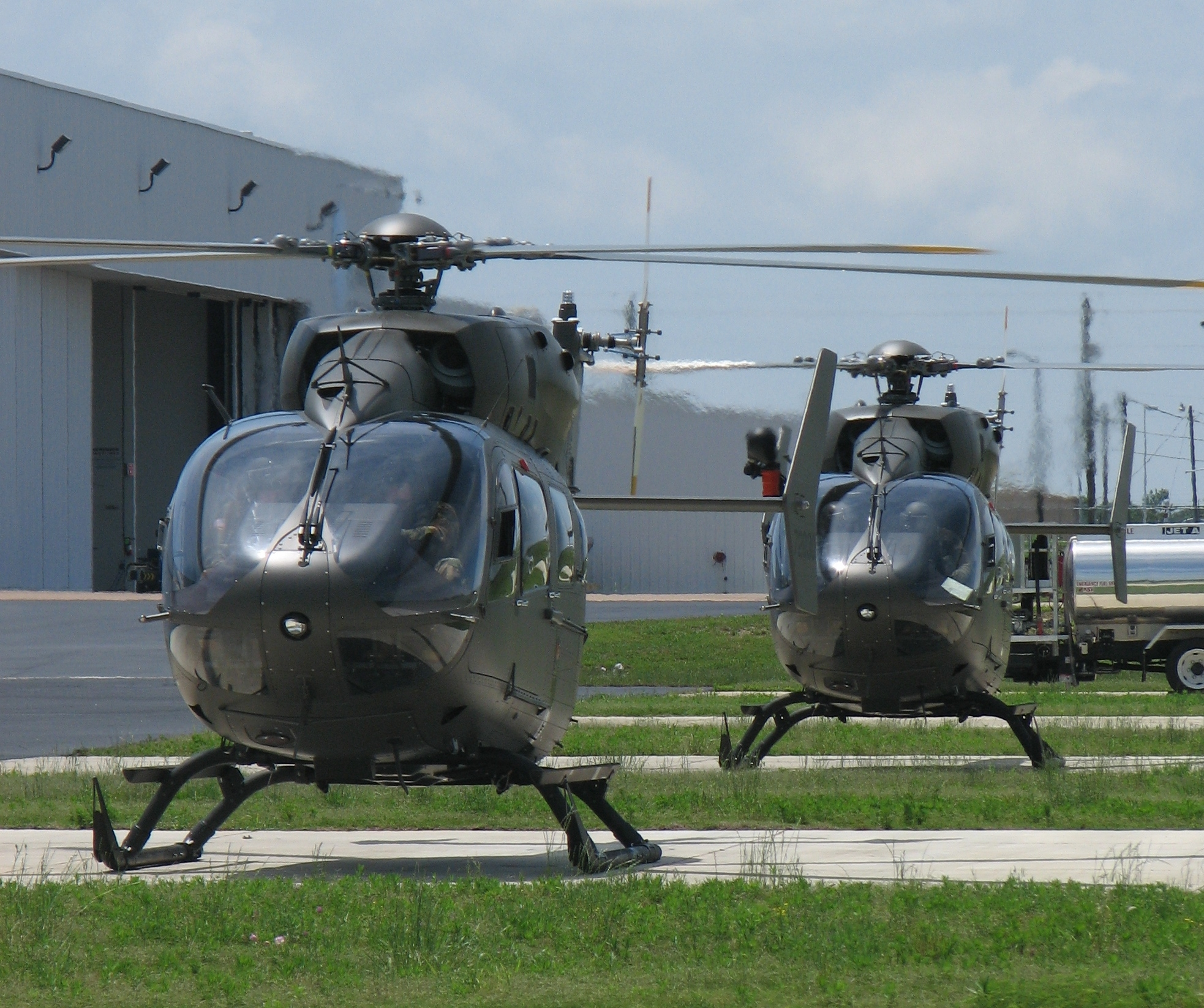 UH-72A Lakota light utility helicopters land in Columbus, Miss. They are the first two Lakotas fielded to the Army National Guard.